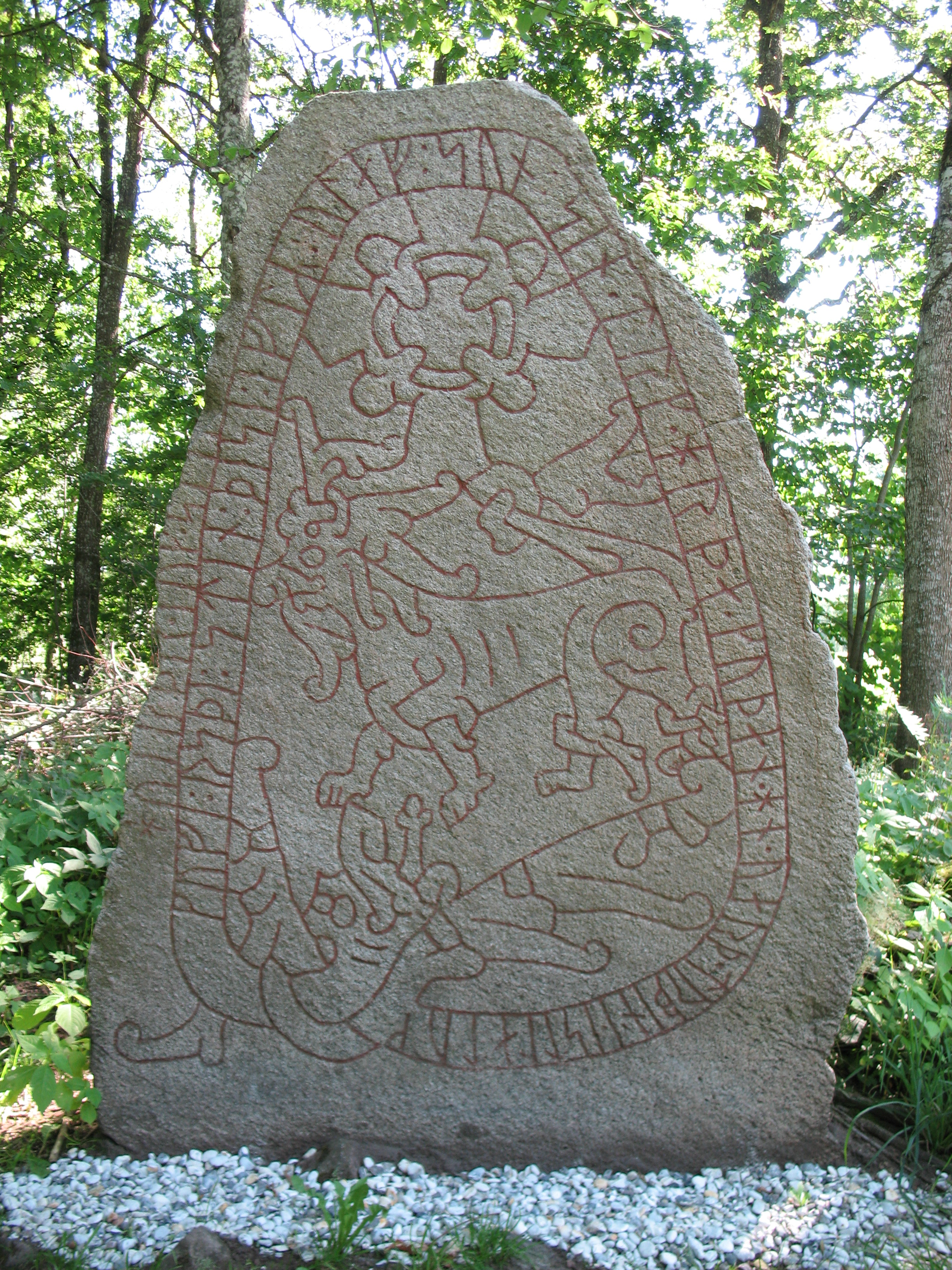 The Olsbro runestone (Vg 181) in Norra Åsarp parish in Västergötland in Sweden. The inscription tells about Olov Guvesson who died in Estonia.